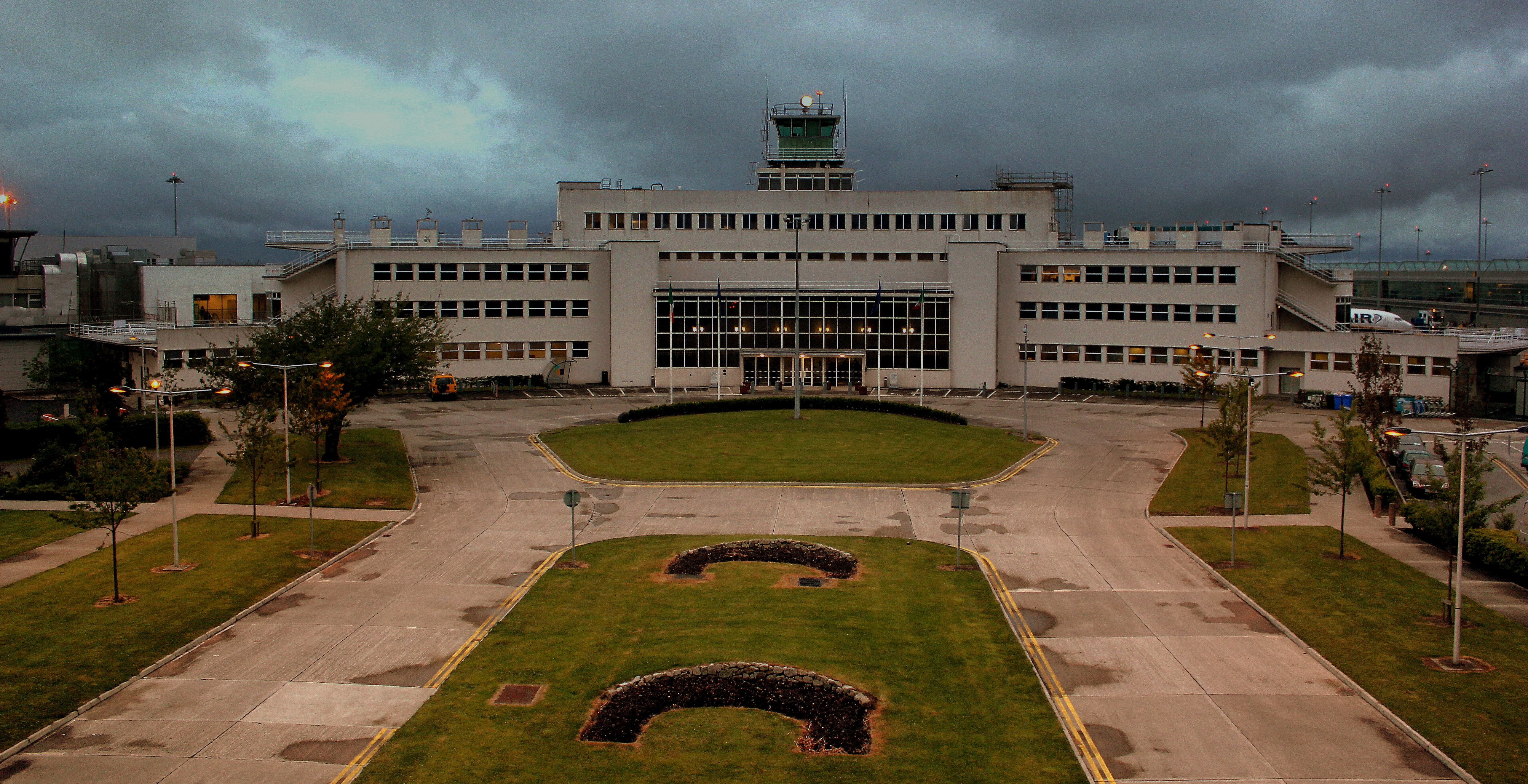 DUBLIN AIRPORT ORIGINAL TERMINAL BUILDING NOW OFFICES IRELAND JULY 2013